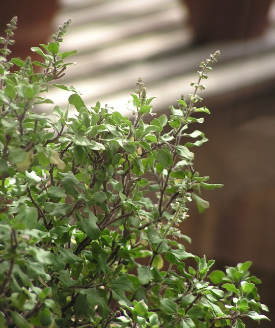 Photograph taken of Tulsi (Holy Basil) by myself in Aug 2006